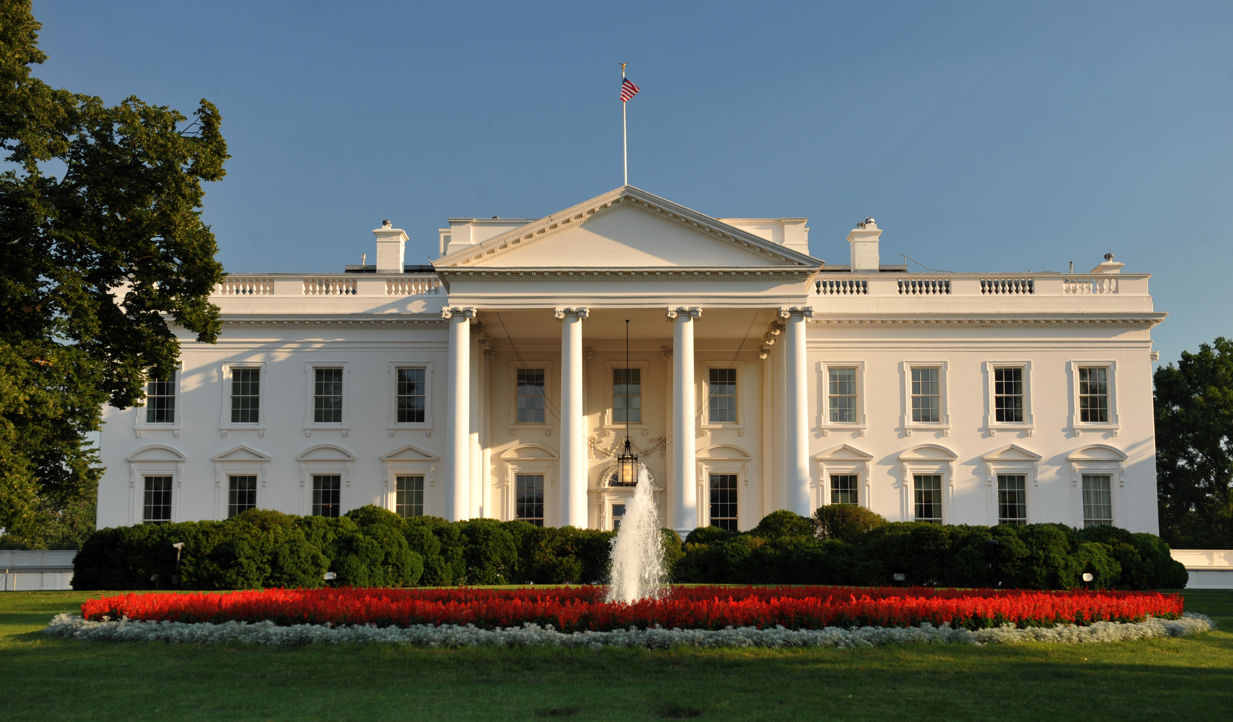 The White House in Washington DC